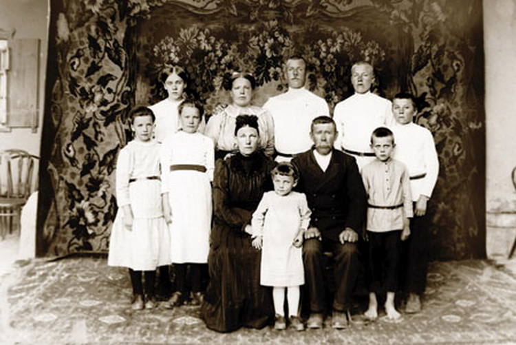 Russian family. Turkestan.